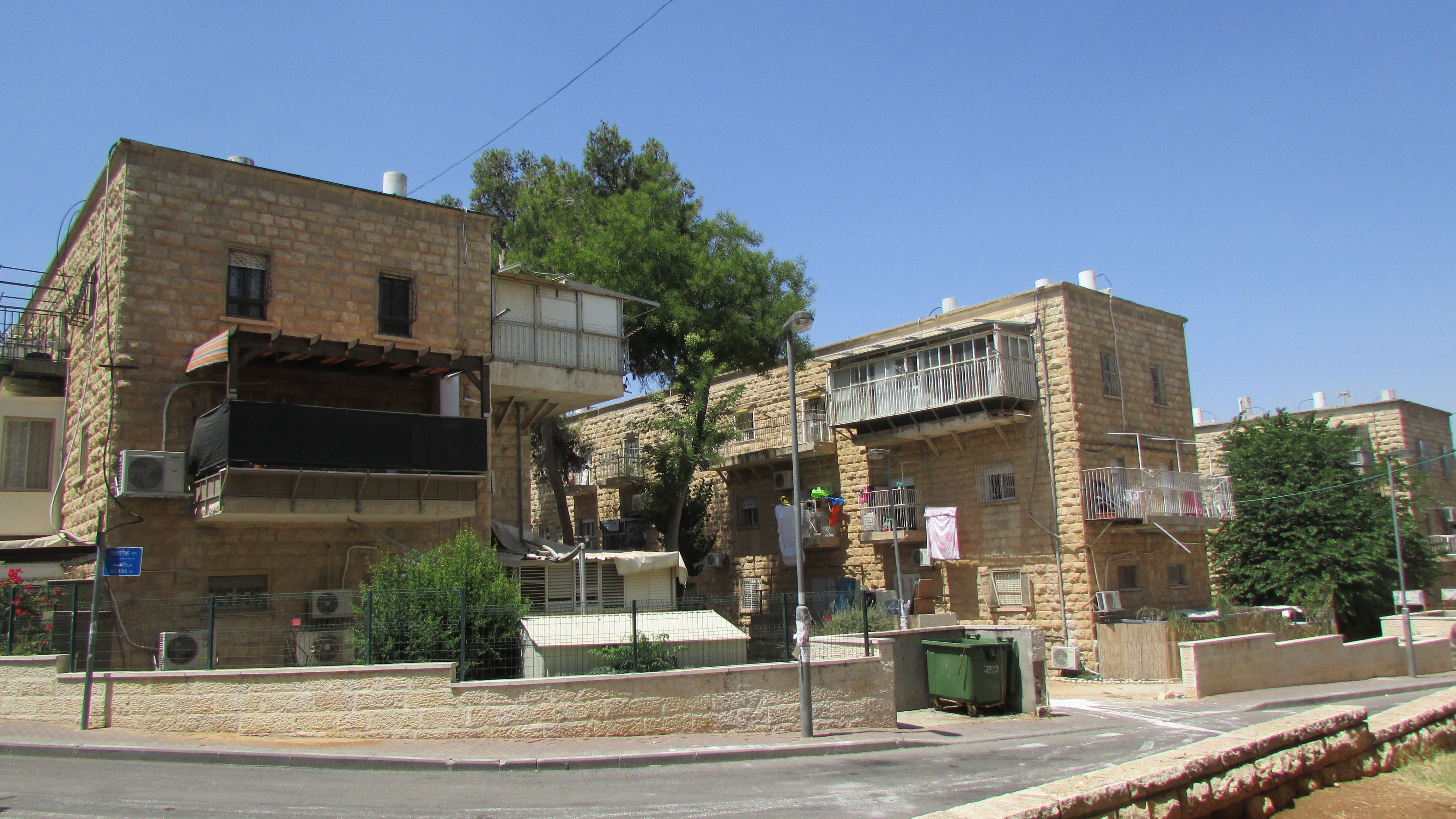 The edges of the three long buildings of Shikun Pagi, from Elasa street